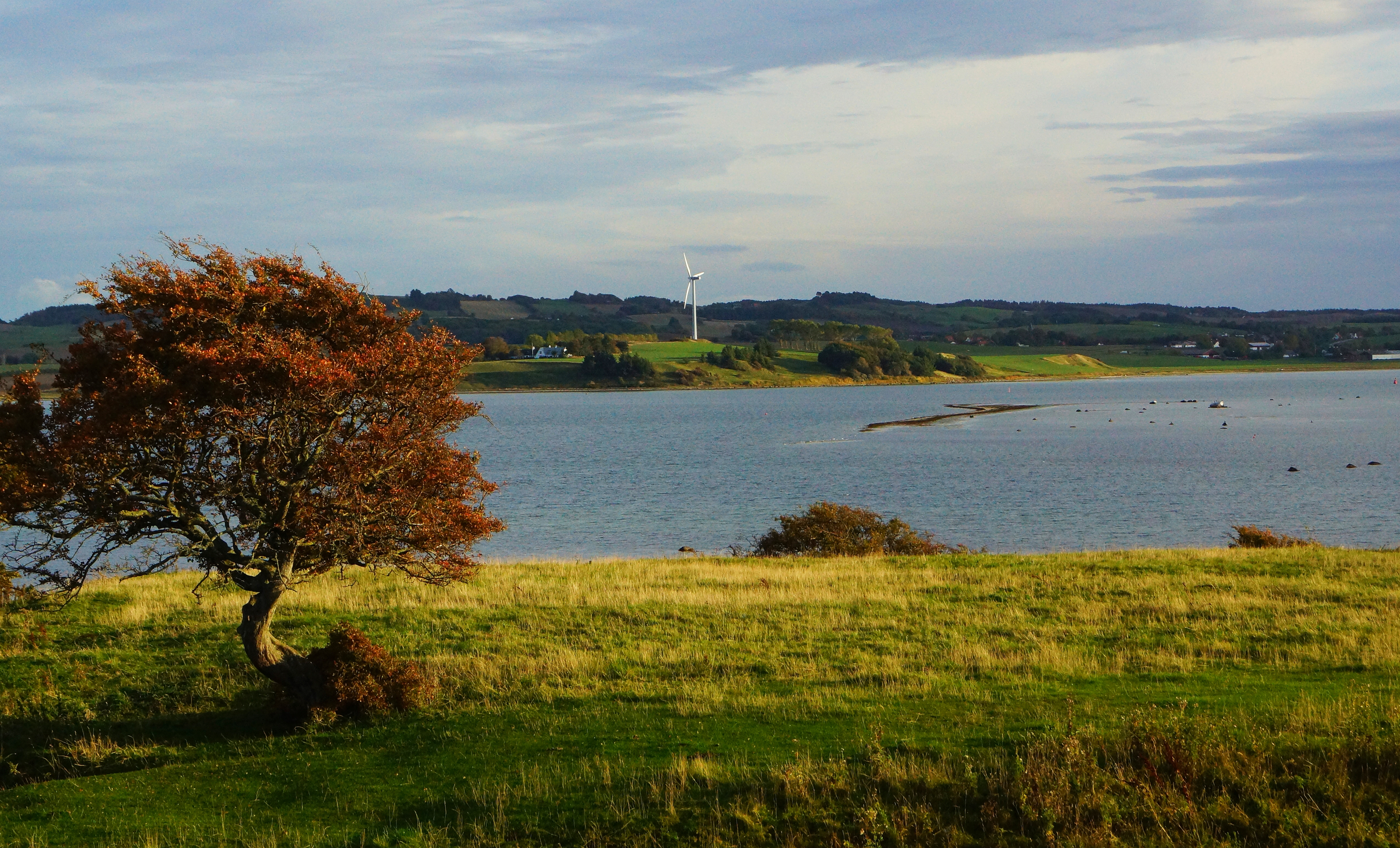 Bight of Egens, with a view across the Rønsten-reef. seen from the Kalø castle ruins.